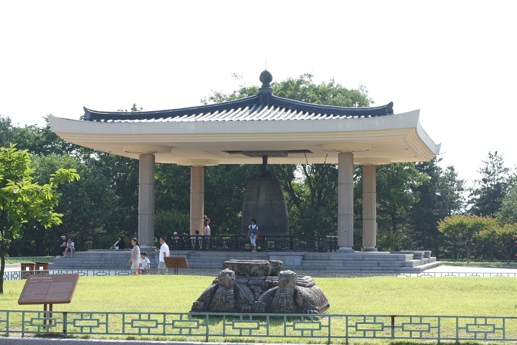 Gyeongju National Museum in Gyeongju, South Korea